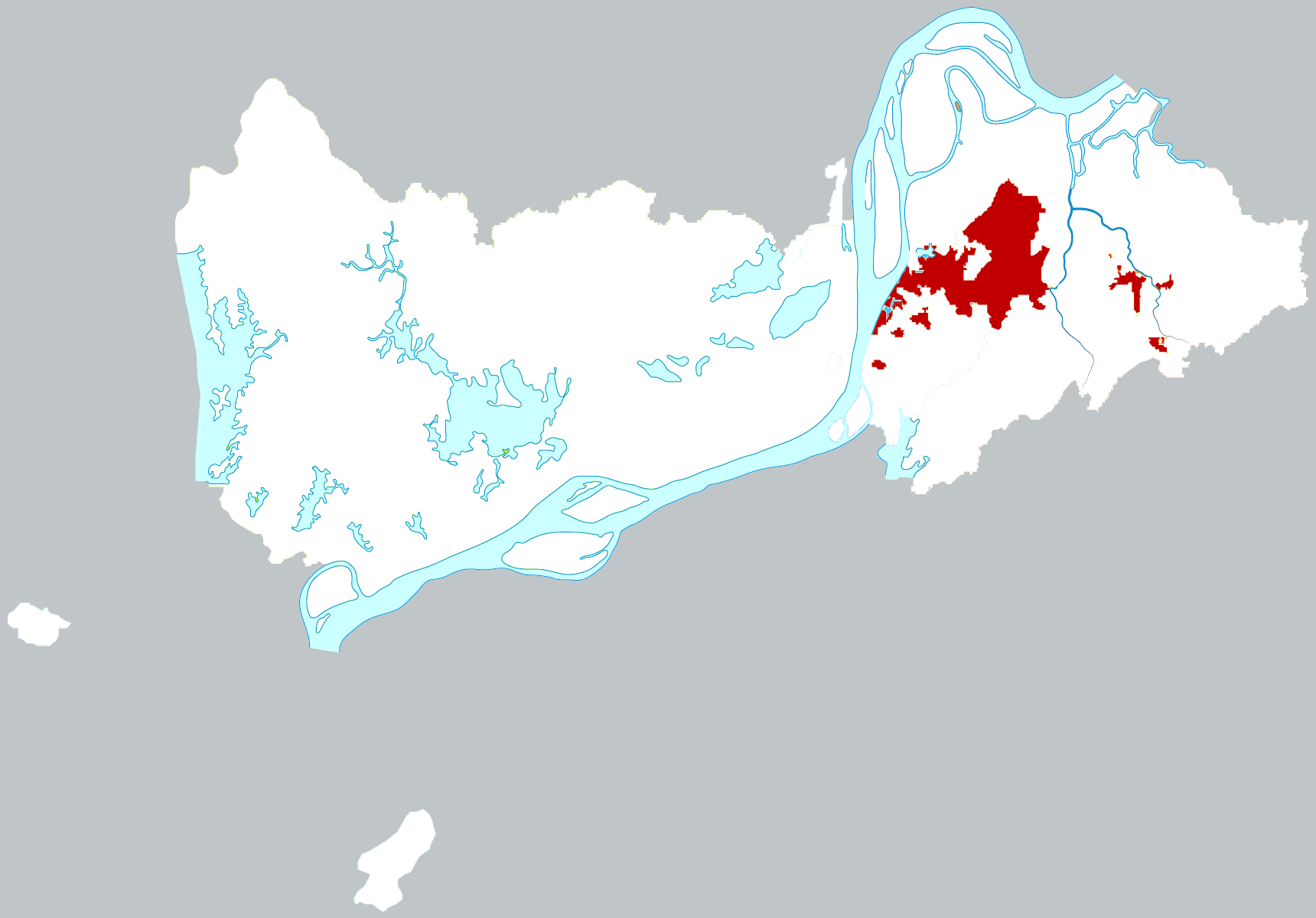 Location of Tongguan district in Tongling city, China